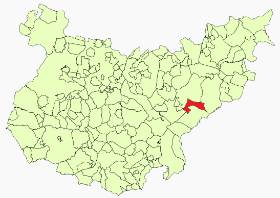 Benquerencia de la Serena